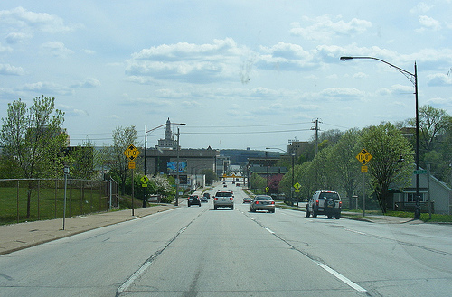 Heading into Downtown Davenport through Harrison Street also know as US 61 South Bound.